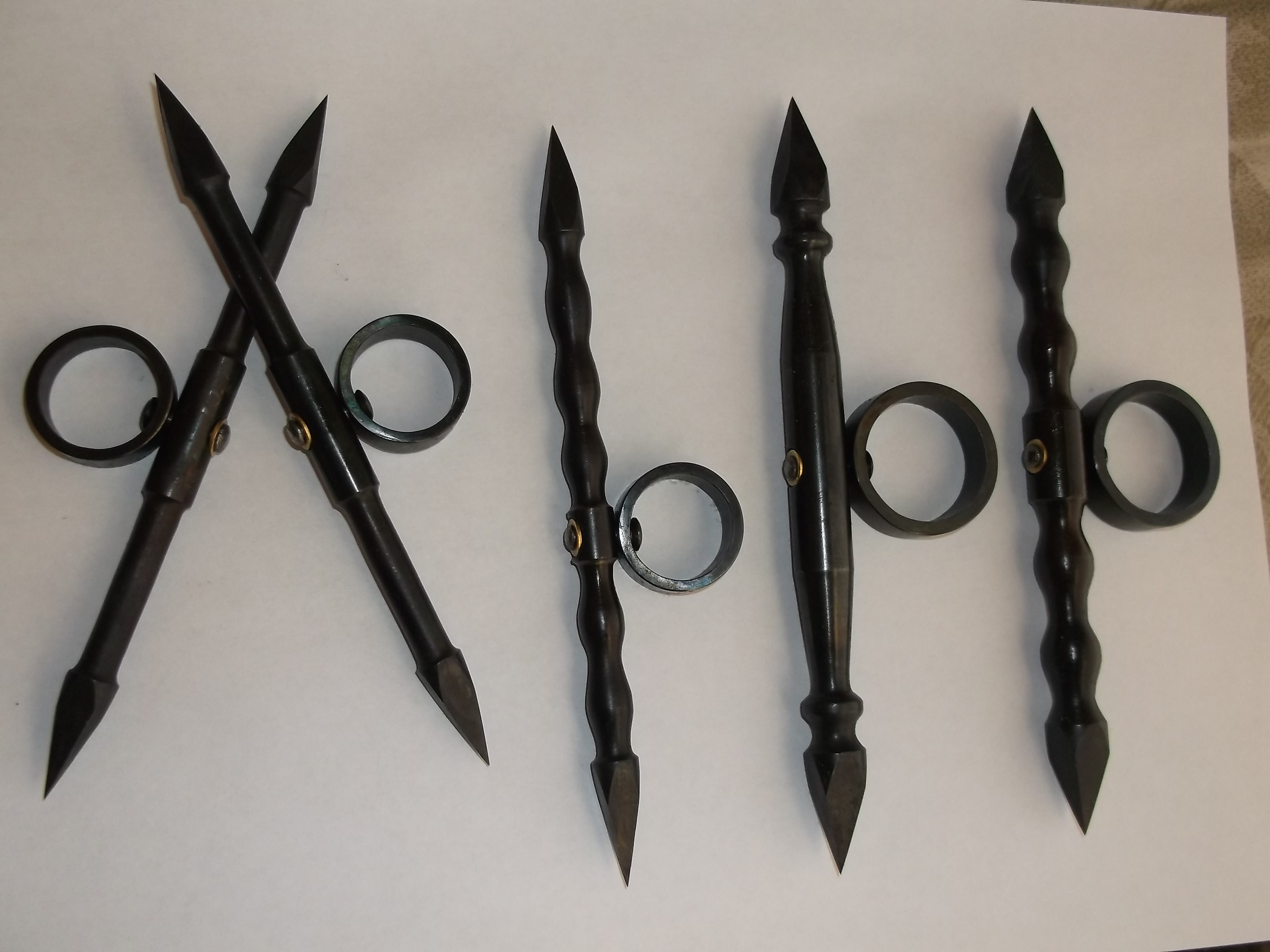 I made these myself, showing various designs.